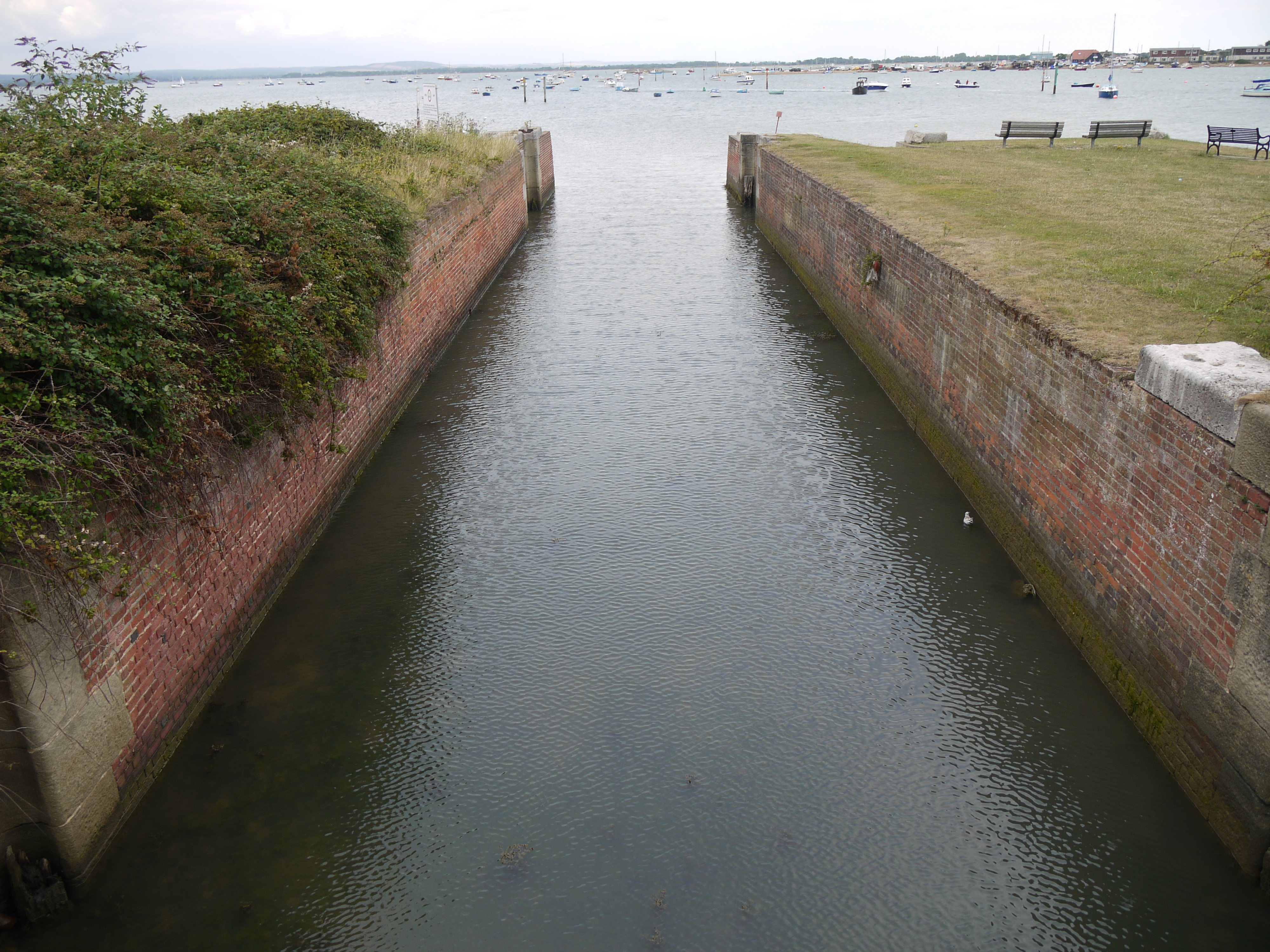 Photo of the remains of the sea lock on the portsea section of the Portsmouth and Arundel Canal